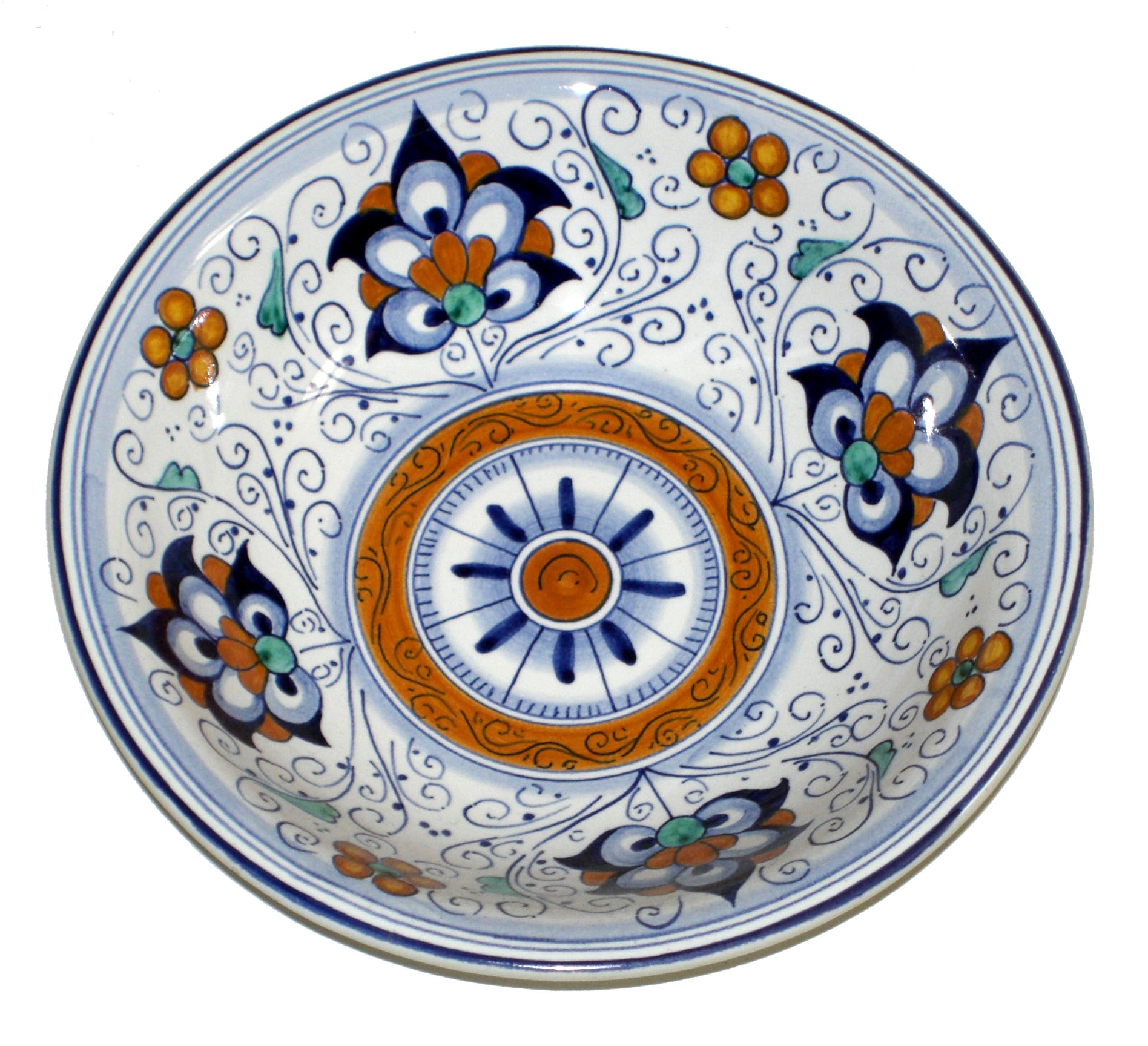 Ceramics (Majolica) plate from the Italian city of Faenza decorated with a traditional style.